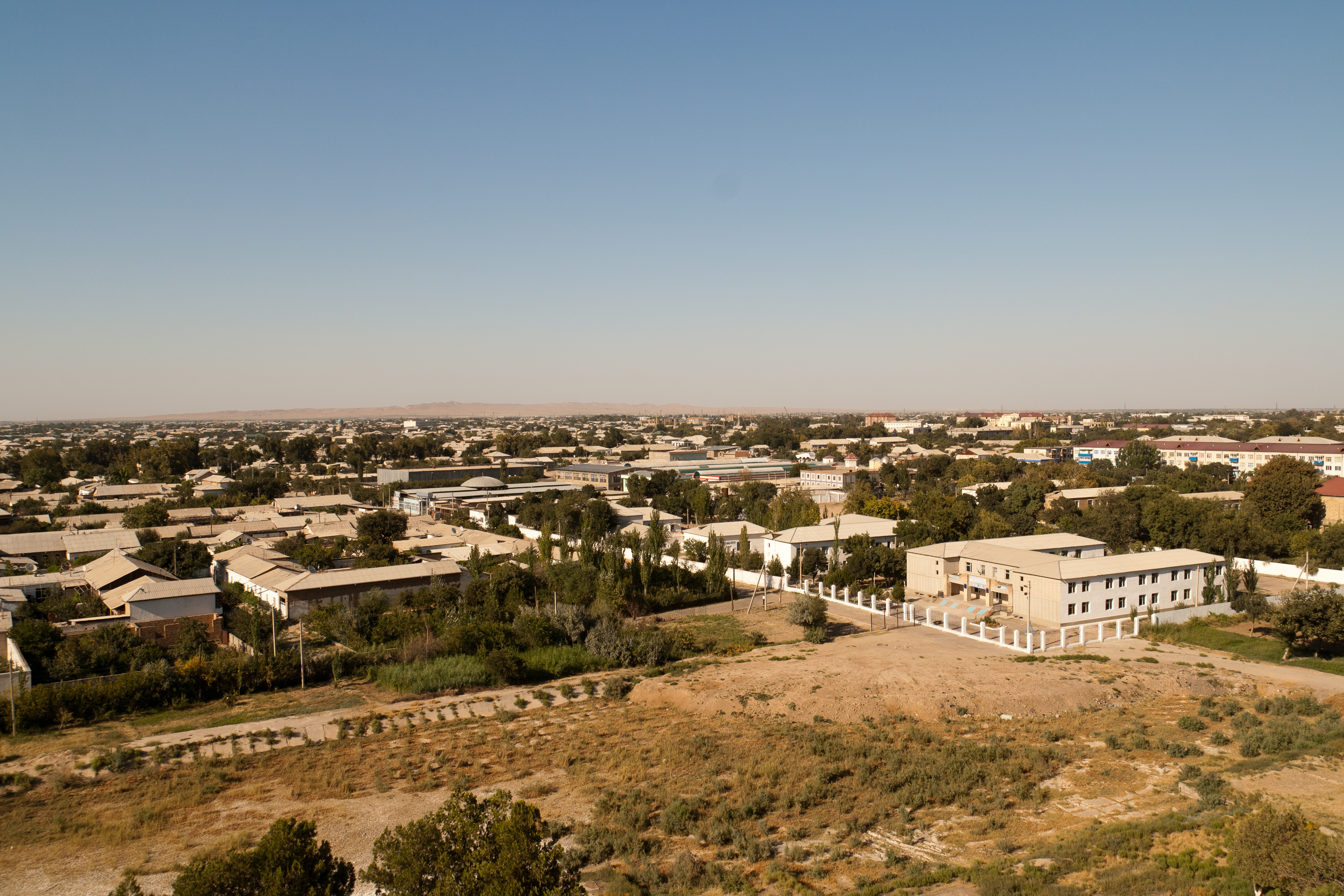 Qarshi, Uzbekistan